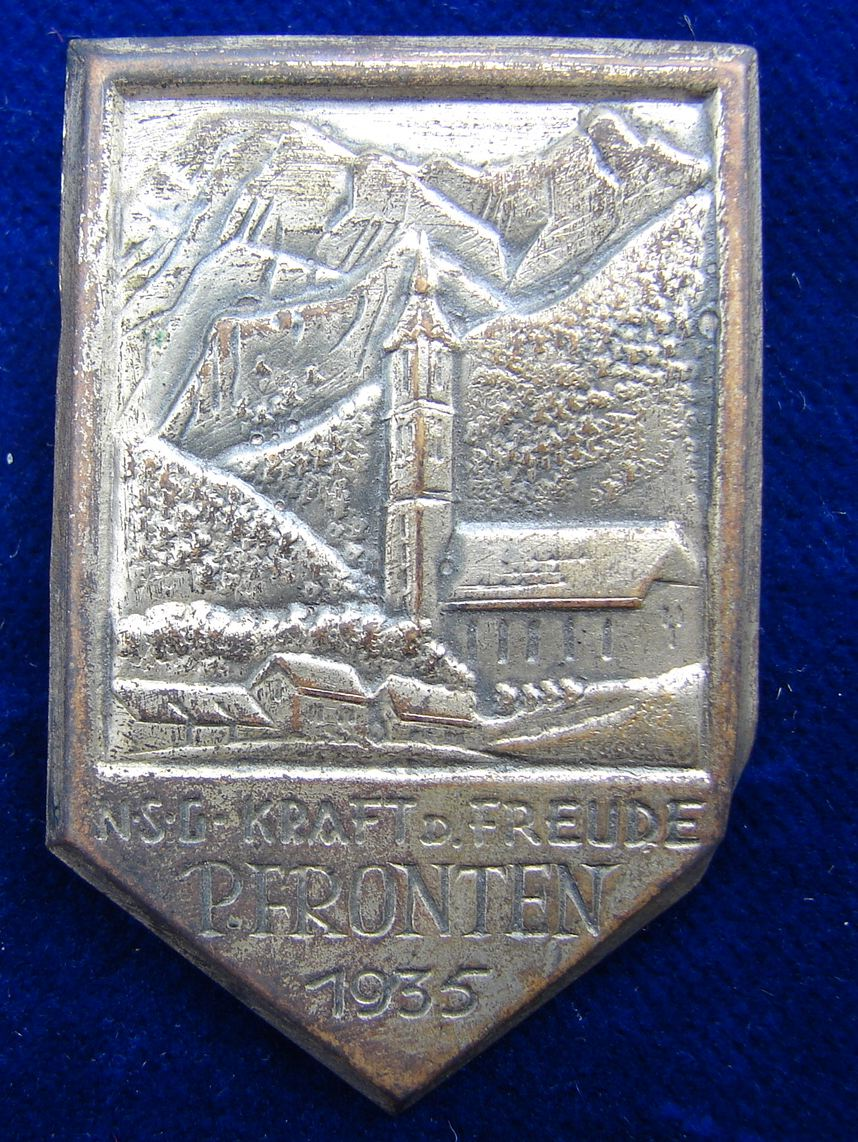 Bronze pin-badge (tinnie), 37 x 45 mm. Pfronten St Nikolaus Church below in 3 lines: "N.S.G. KRAFT D. FREUDE PFRONTEN 1935"/ Pin Issued by Nationalsozialistische (Nazi) Gemeinschaft (N.S.G.) Kraft durch Freude (KdF). KdF (literally "Strength through Joy") was a large state-controlled leisure organisation in Nazi Germany, as part of the the national German labour organisation. Condition: Extremely Fine.